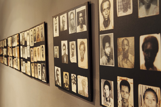 Photo from exhibition room at Kigali Genocide Memorial